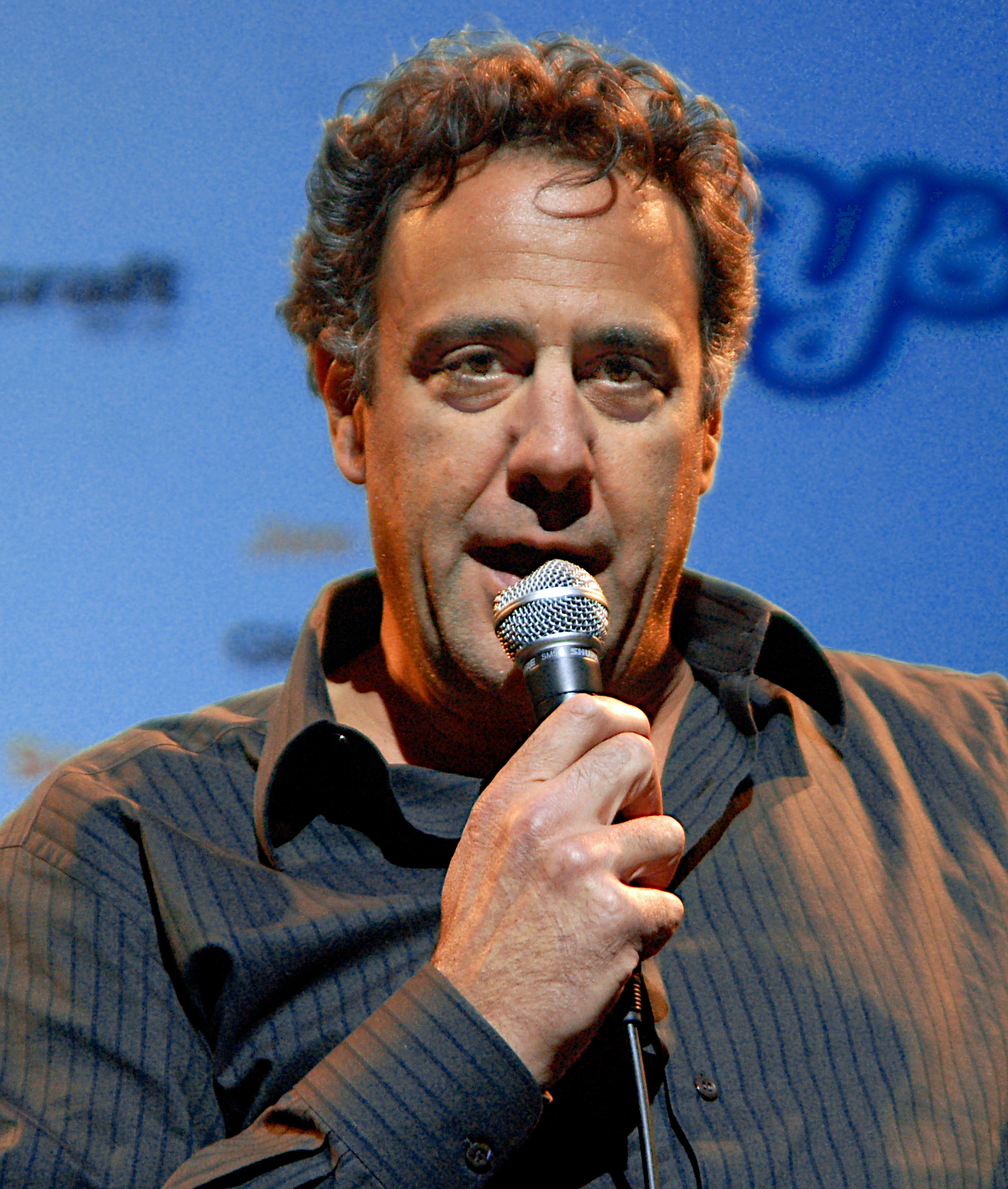 Brad Garrett at the Night of Comedy 9 benefit to support the Children Affected by AIDS Foundation (CAAF) in Beverly Hills, California.